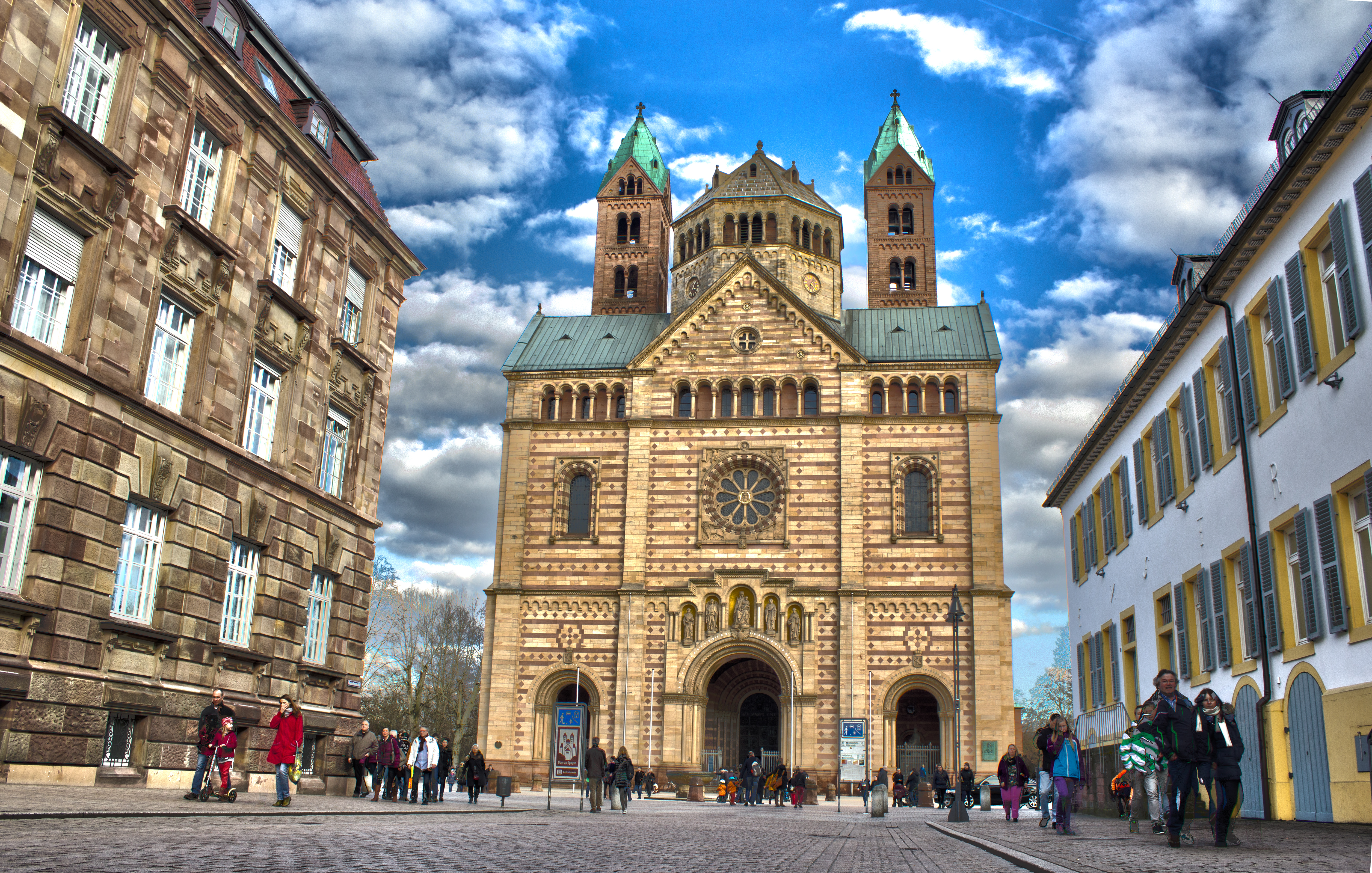 Speyer cathedral